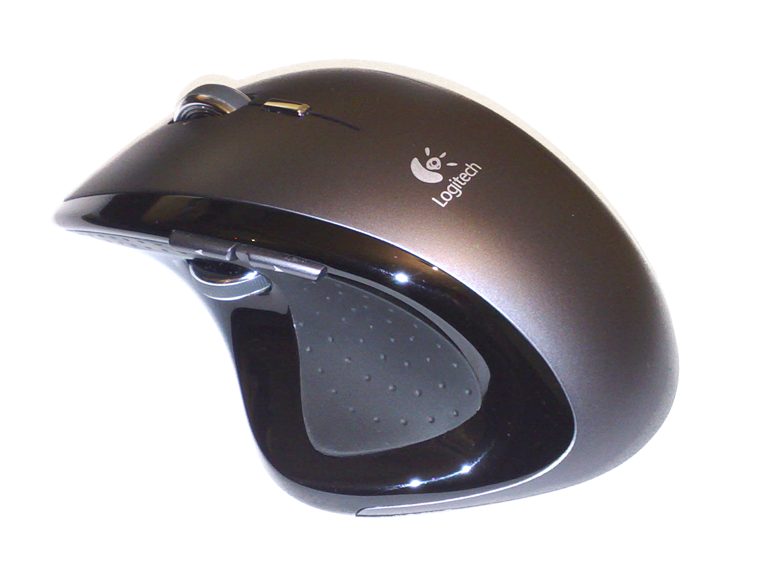 Photograph of the Logitech MX Revolution laser mouse